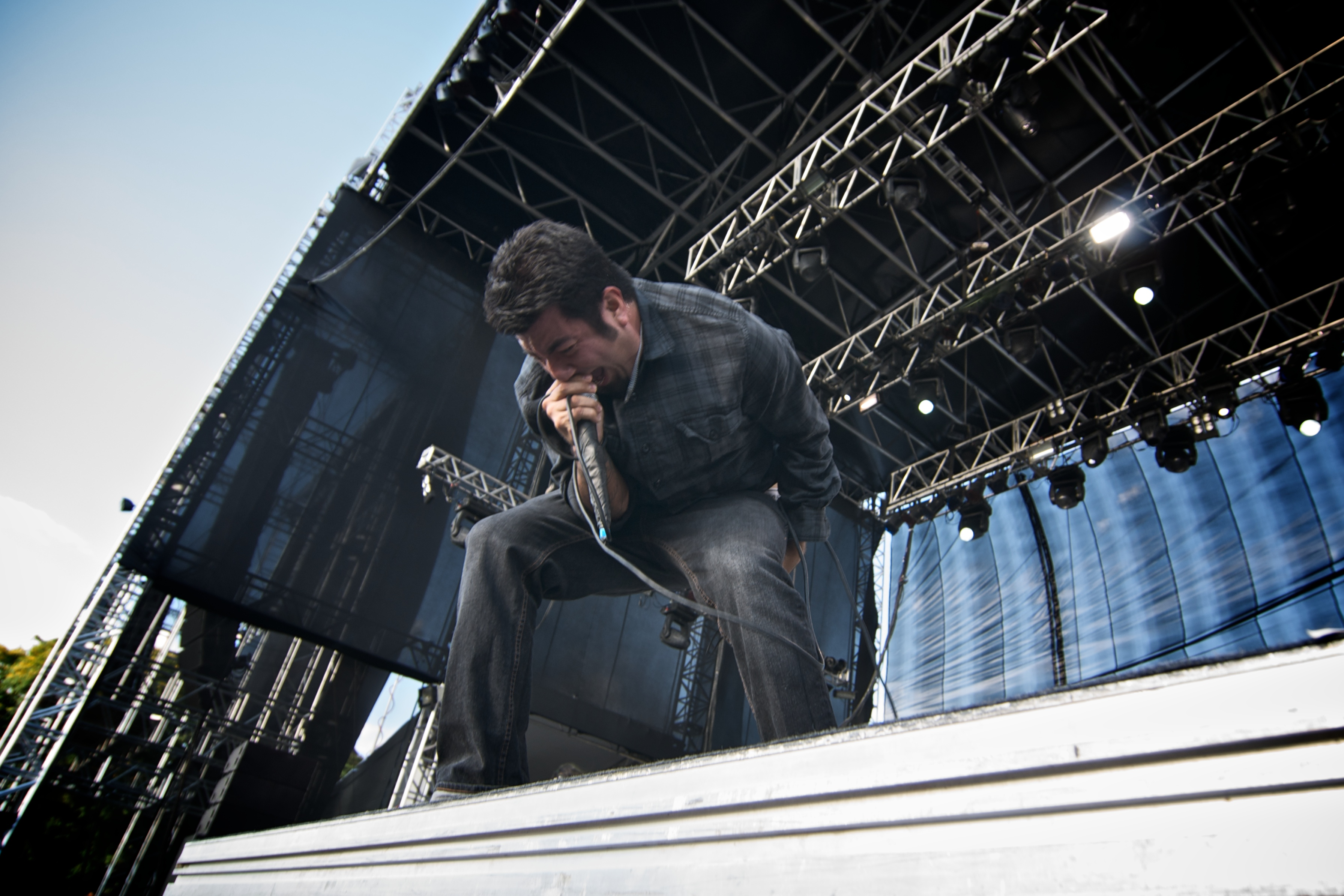 Deftones in Maquinária Festival, occurred in November 7 2009 at São Paulo, Brazil.